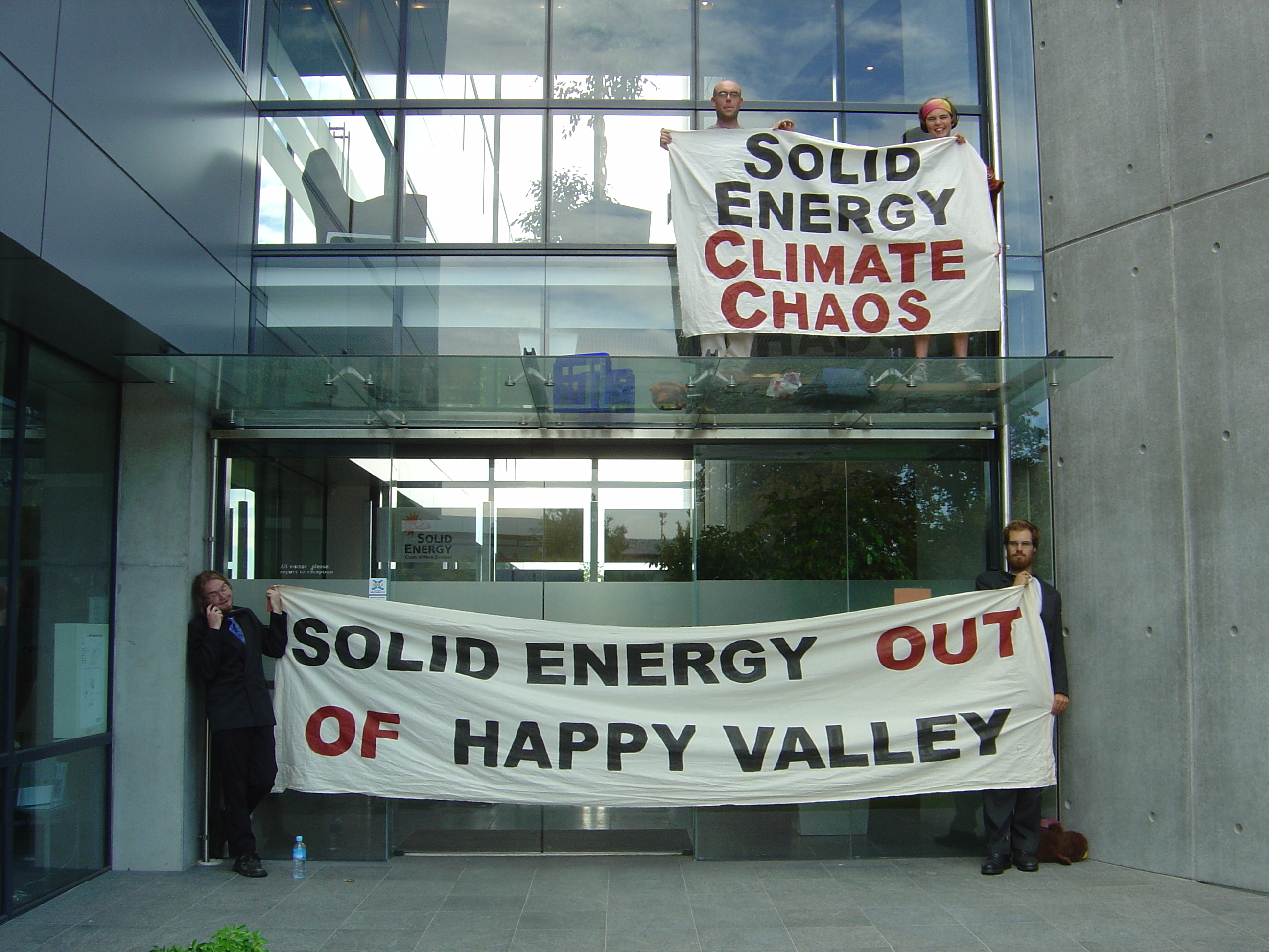 Save Happy Vally Coalition protest at the main entrance to the head office of Solid Energy.